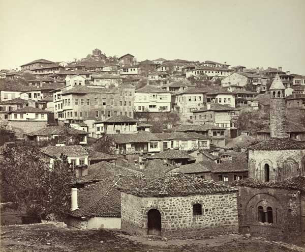 Ohrid, Macedonia in the end of September 1863